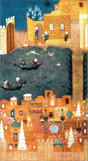 "Flood in Bagdad" (1468) from Shemakha (Azerbaijan). British museum, London